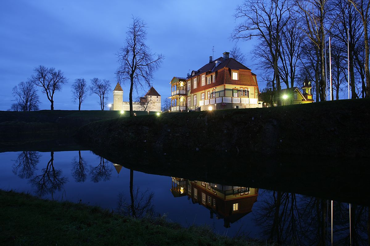 Hotel Ekesparre Residence